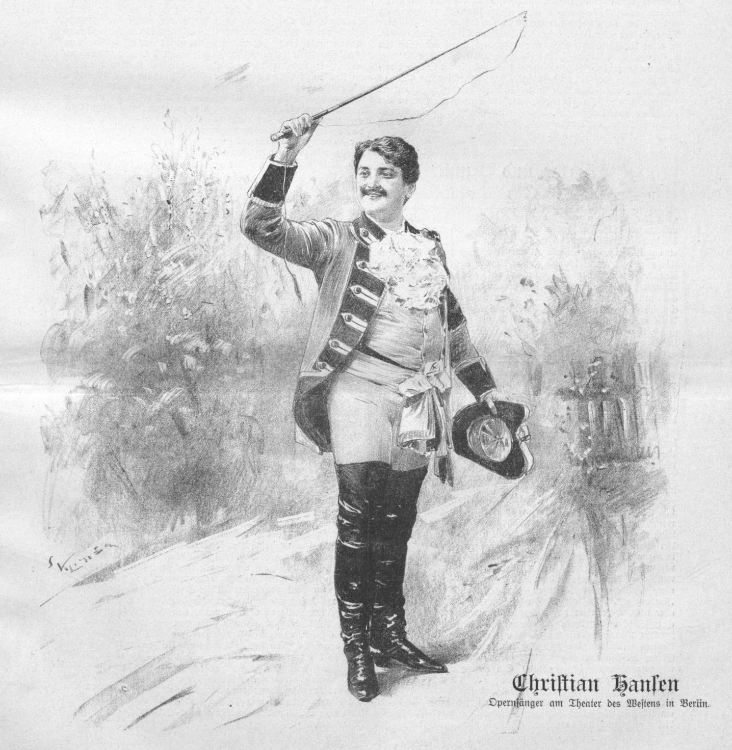 Portrait of Christian Hansen (1874-??), German opera singer.